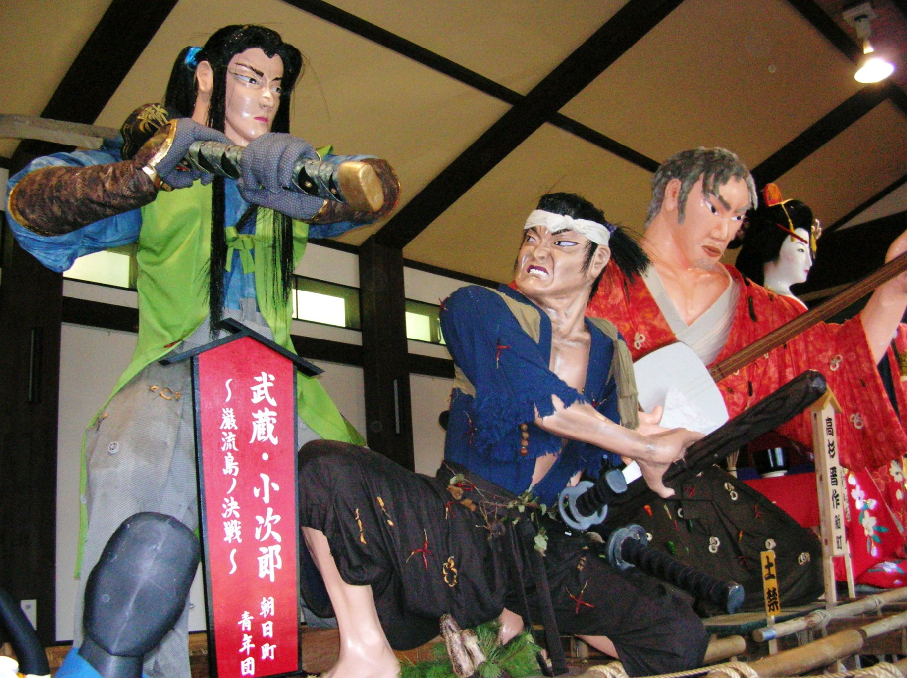 Tukurimon_of_Hourai_Festival2009